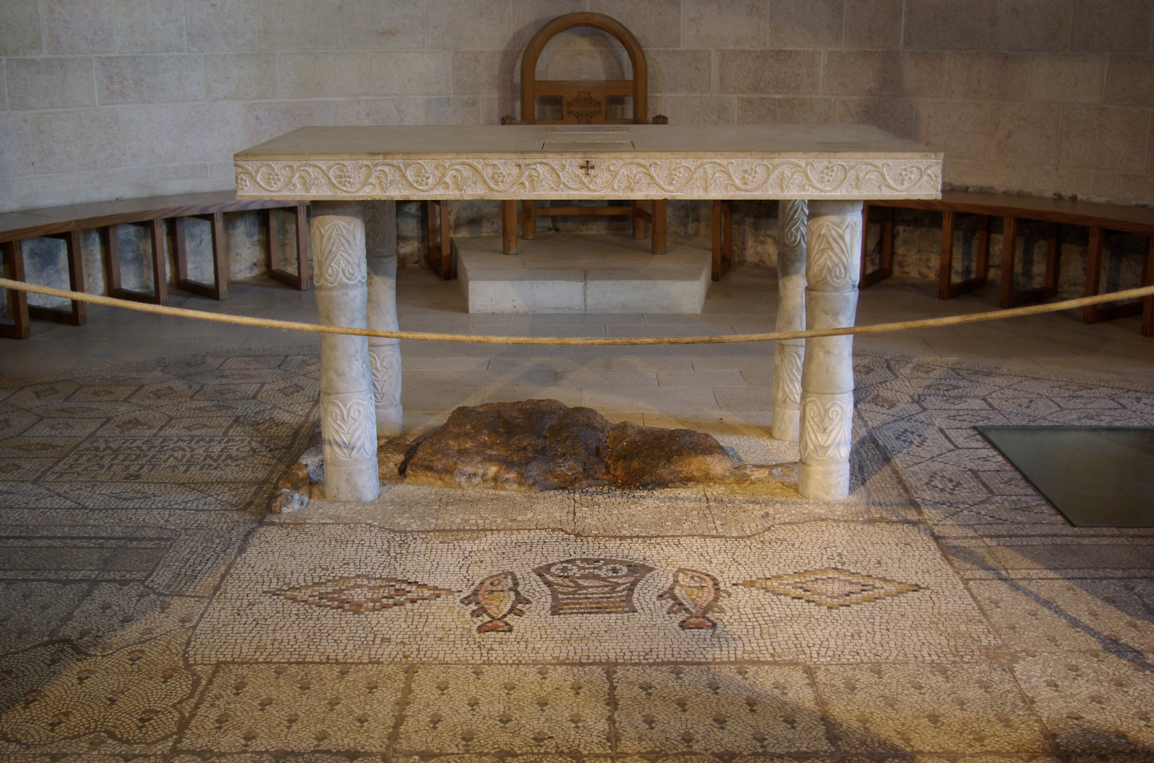 "Rock of the Multiplication", in the Church of the Multiplication in Tabgha, on which Jesus is said to have multiplied the five loaves and two fishes represented on the mosaic.